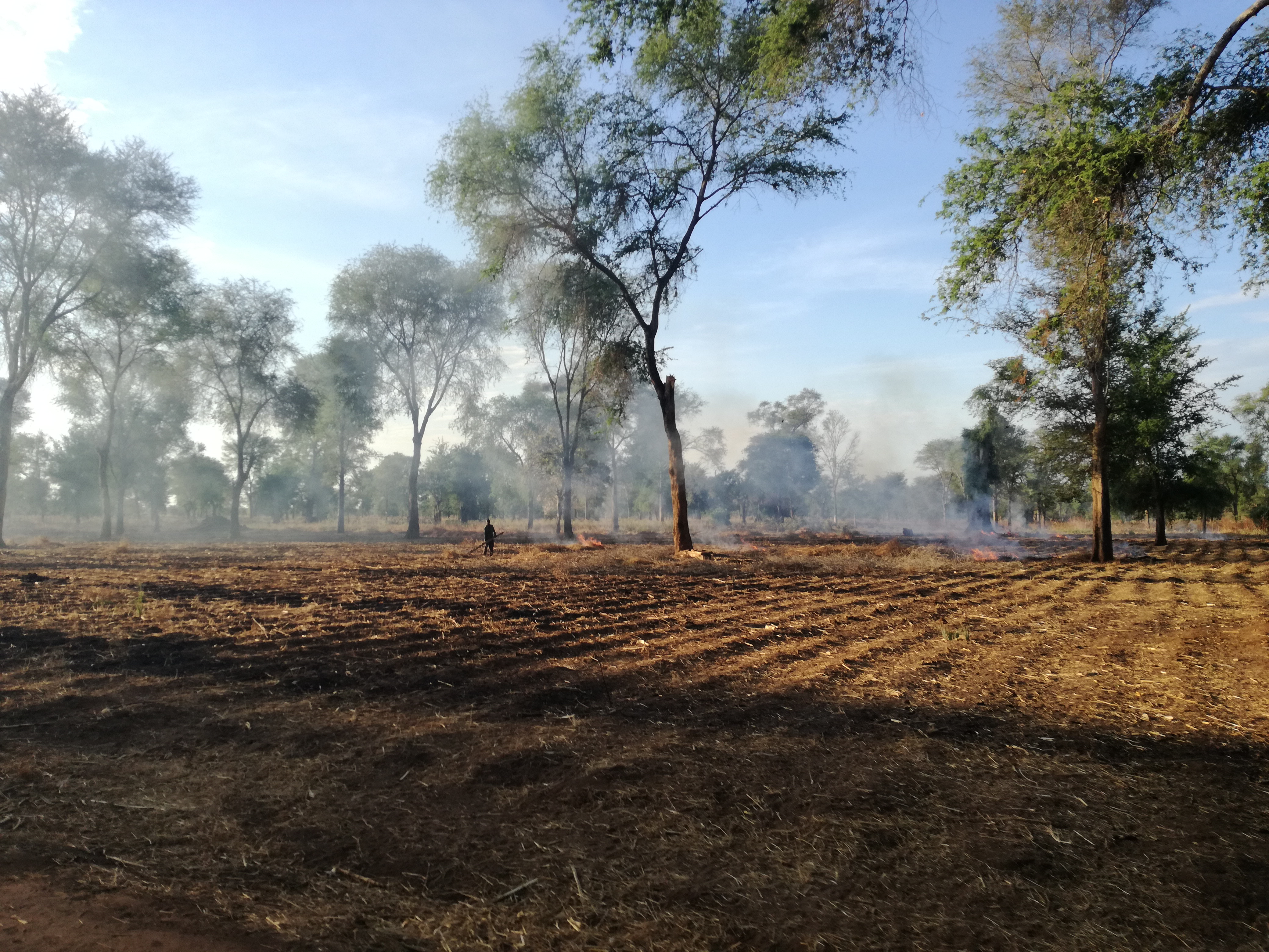 A man clears a field before the rainy season. Mlesi, Salima District, Malawi This is an image of "African people at work" from Malawi